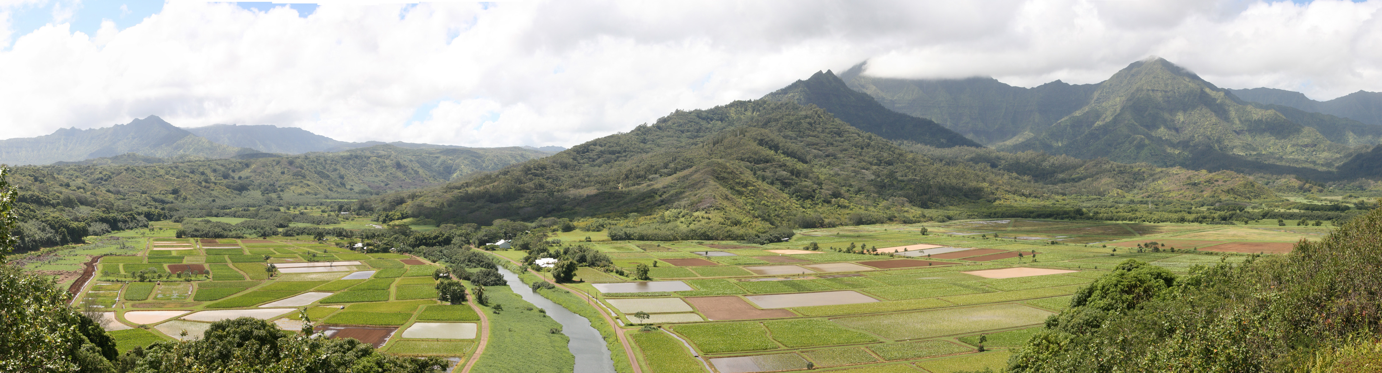 Photographer: myself, Gh5046 A stitched panorama of the Hanalei Valley taken 2007/08/22 from the Hanalei Valley Lookout in Hanalei, Hawaii. The photo was stitched from several other photos, cropped and resized, otherwise it is in its original state.